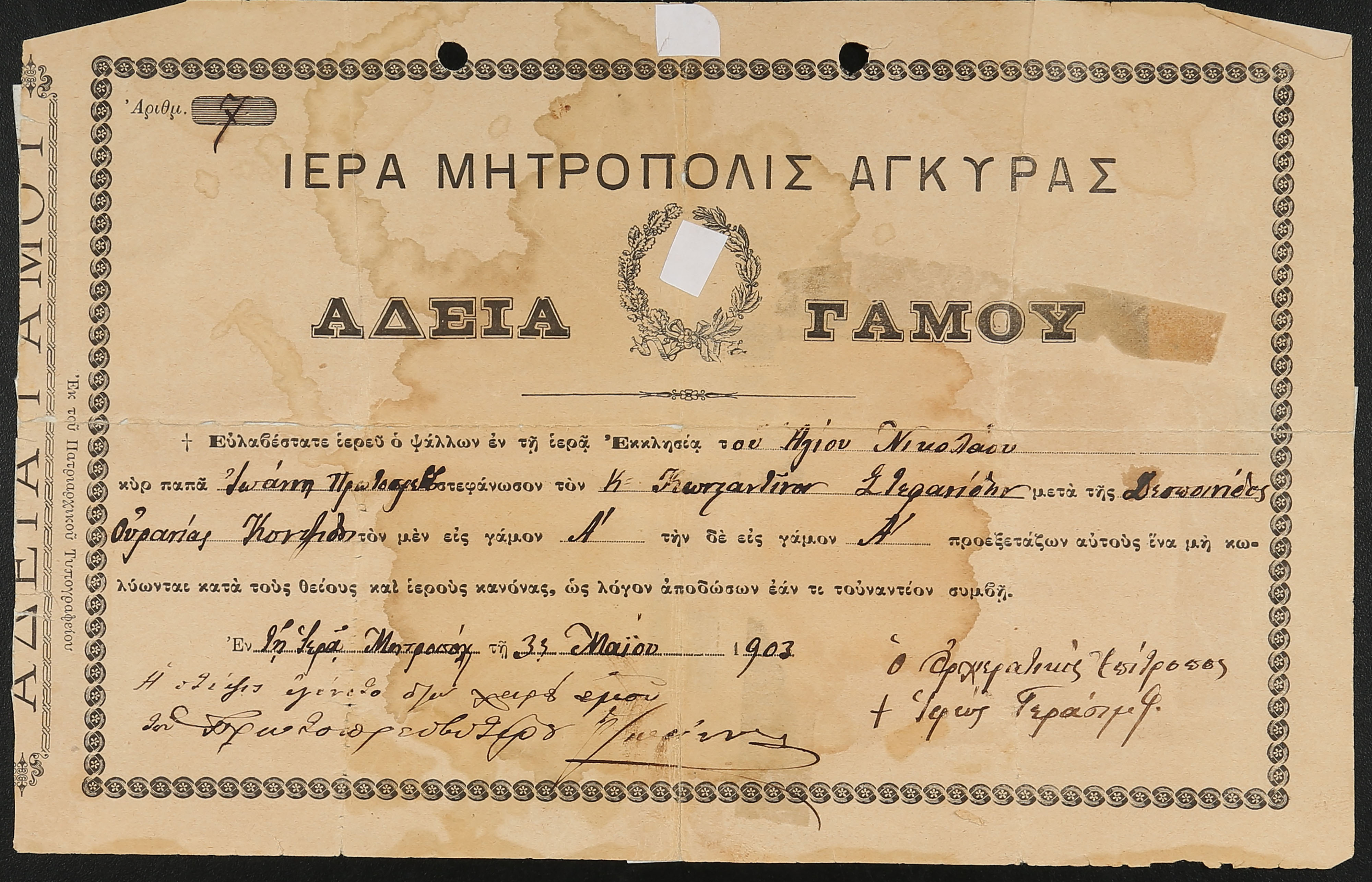 Marriage license issued by the Metropolis of Ancyra, regarding the marriage of Konstantinos Stefanidis and Ourania Kontzidou. Ankara. 3 May 1903